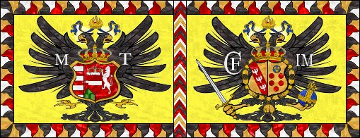 Austrian German Infantry Regimentsfahne